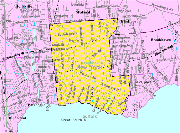 U.S. Census 2000 reference map for East Patchogue